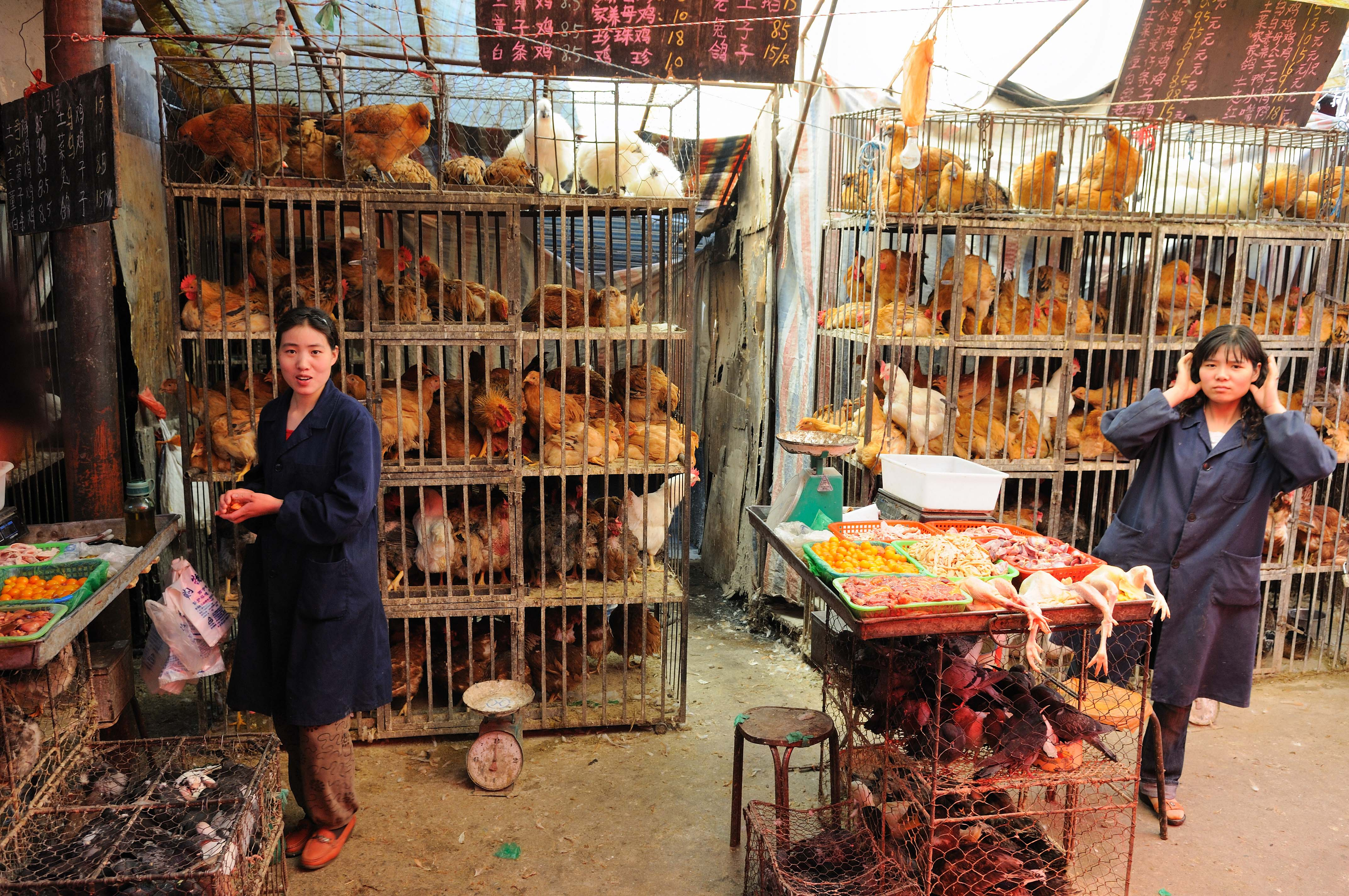 Chicken market in Xining, Qinghai province, China.